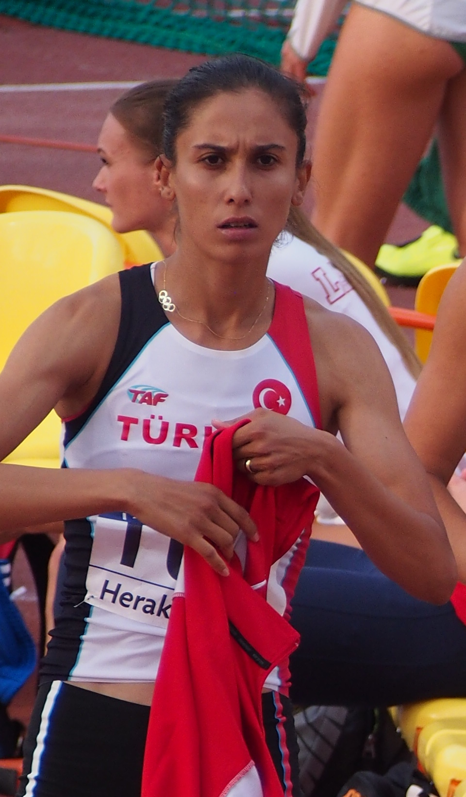 Burcu Yüksel, representing Turkey, during the high jump at 2015 European Team Championships First League, held at Heraklion.